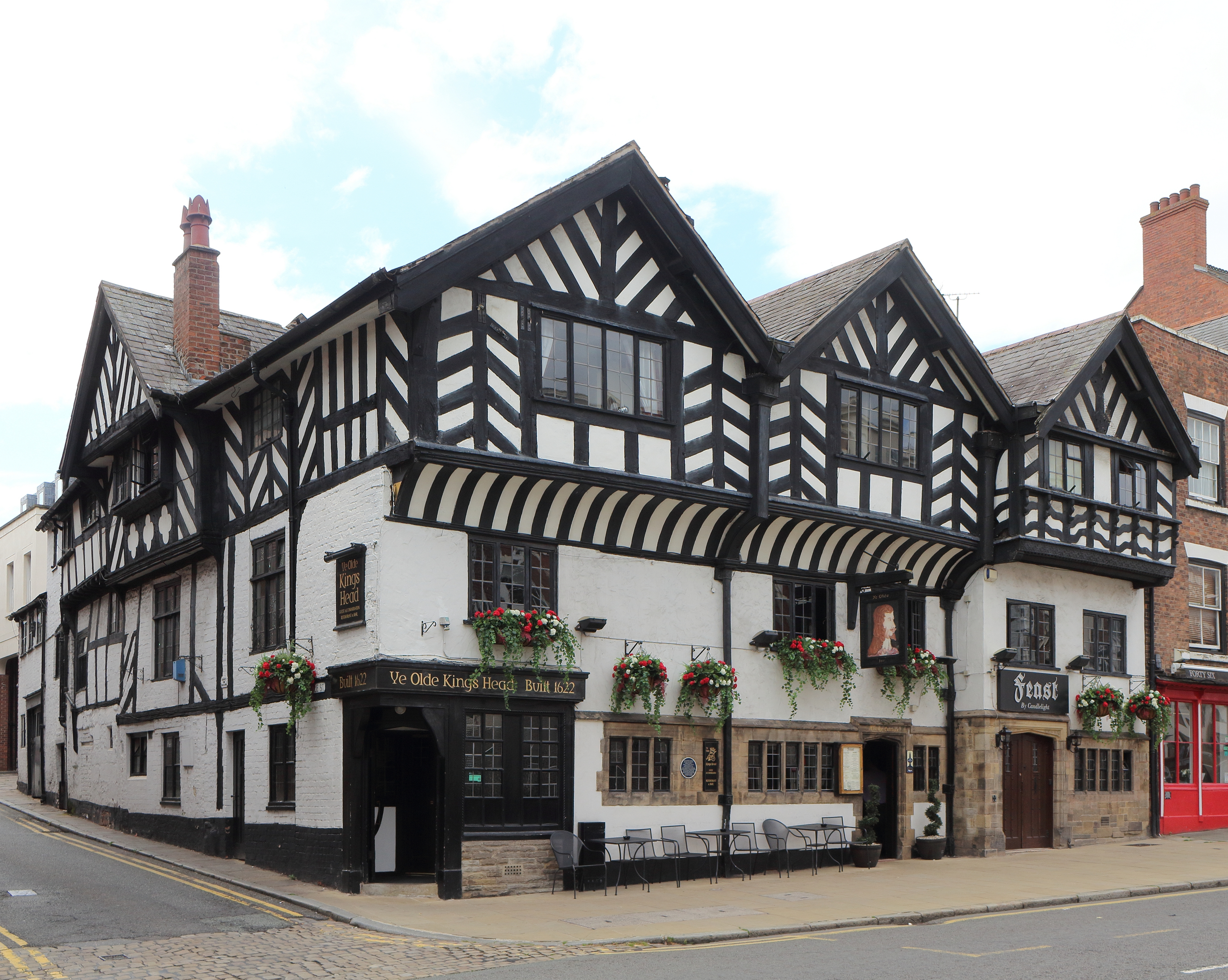 Grade II* listed pub on Lower Bridge Street, dating to c. 1622.